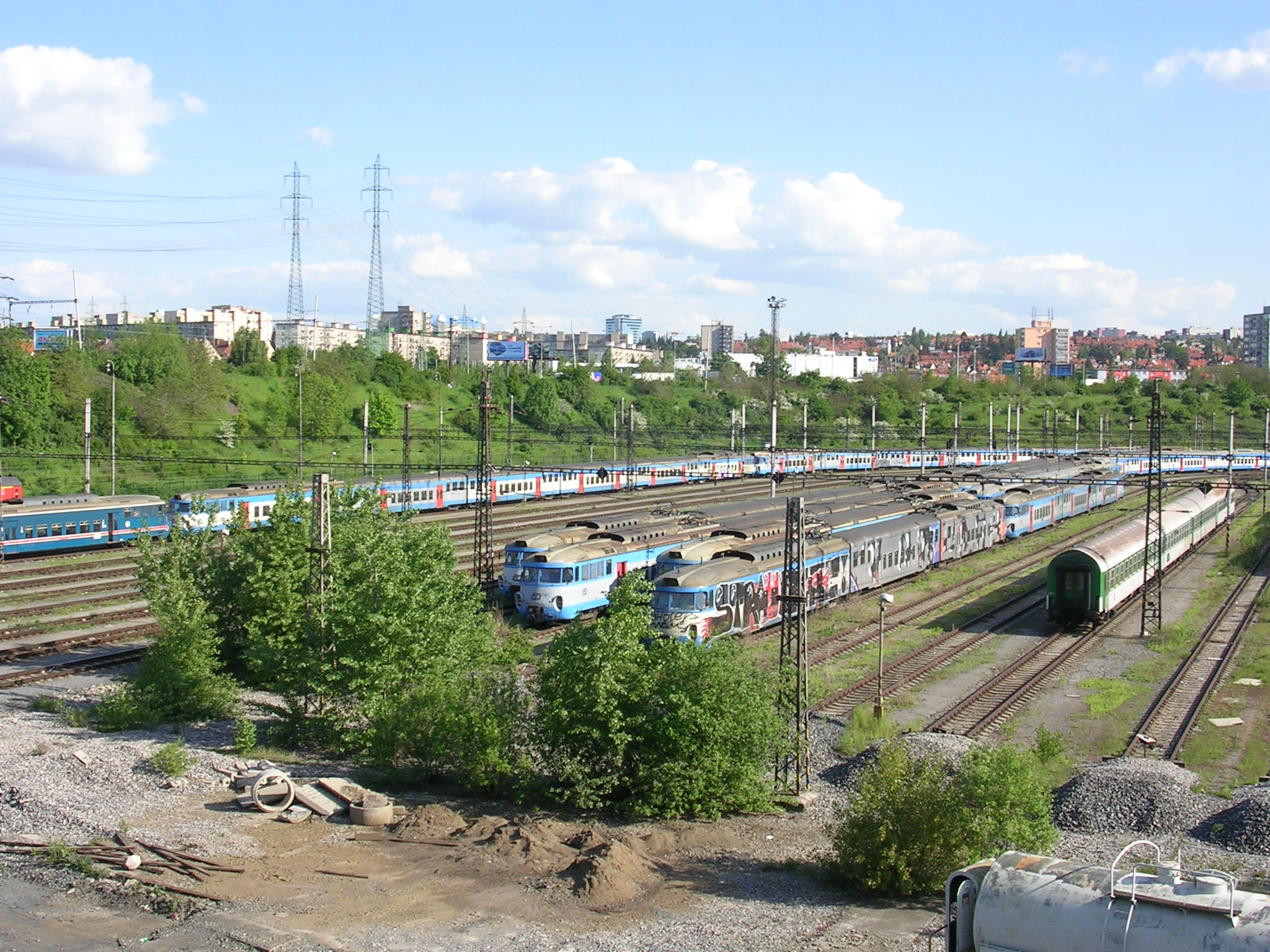 Train depot station "Praha-jih", Záběhlice and Michle, Prague, the Czech Republic.